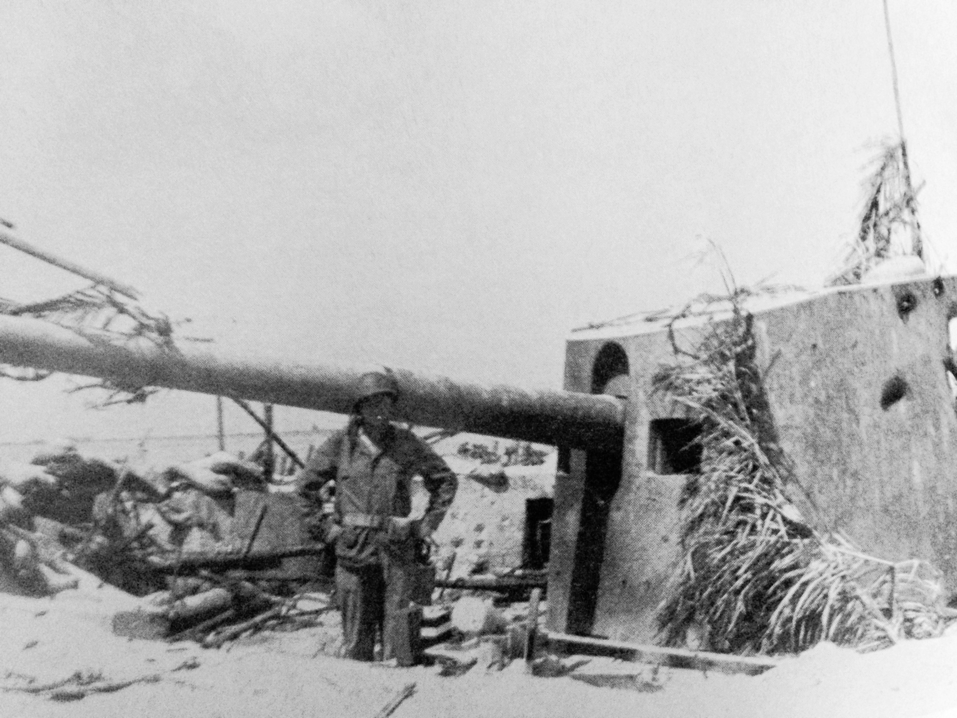 The Japanese had four 14 centimeter guns as part of their defenses of Tarawa. Note the holes in the gun shield.